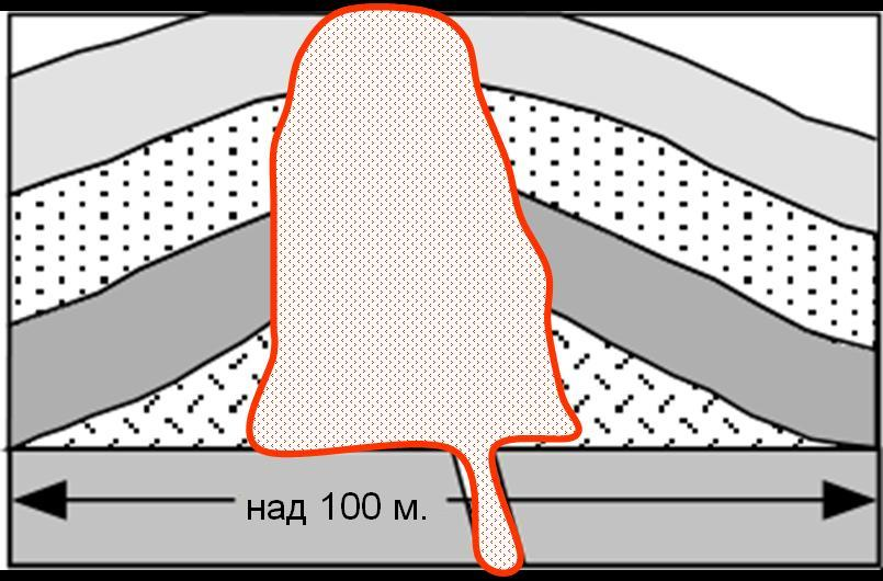 Bysmalith Scheme